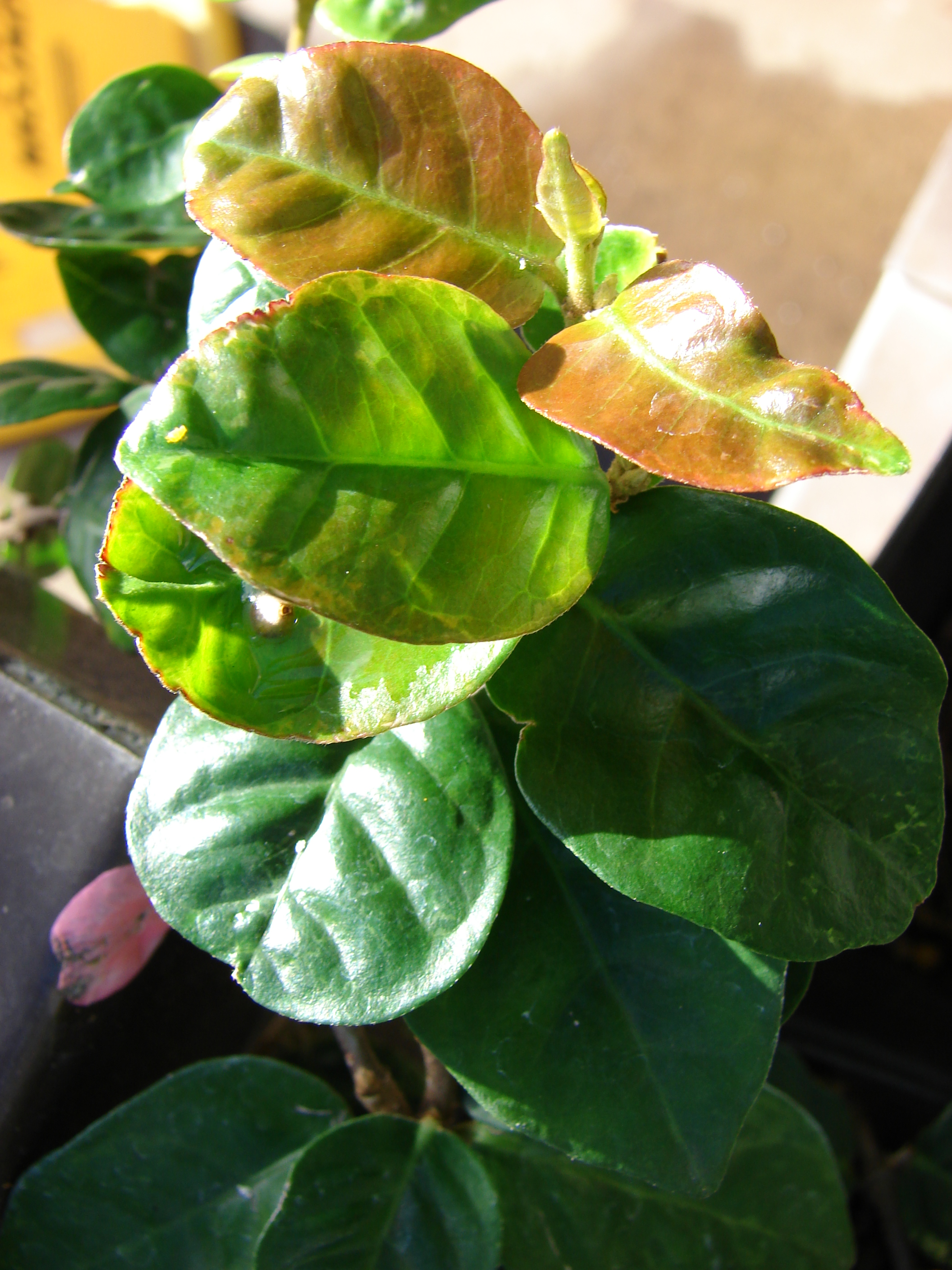 Trachelospermum asiaticum (leaves). Location: Maui, Lowes Garden Center Kahului